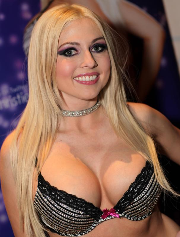 Photos from the 2013 AVN Expo & AVN Awards held at the at the Hard Rock Hotel & Casino in Las Vegas. Please provide photographer credit when using, tweeting, etc... Photo by Michael Dorausch This photo is licensed under a Creative Commons license. If you use this photo within the terms of the license or make special arrangements to use the photo, please list the photo credit as "Michael Dorausch" and link the credit to .